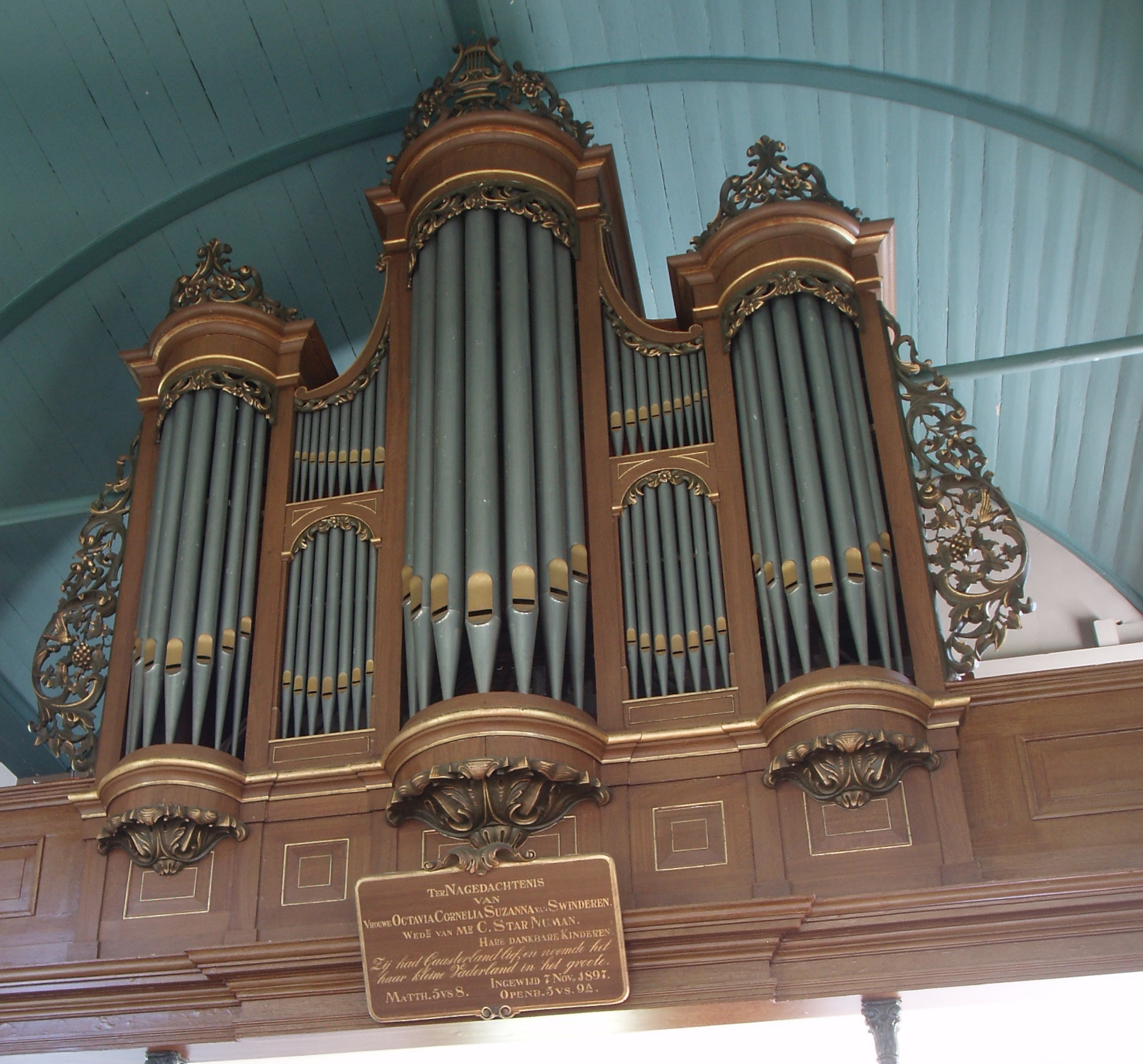 Bakker & Timmenga 1897